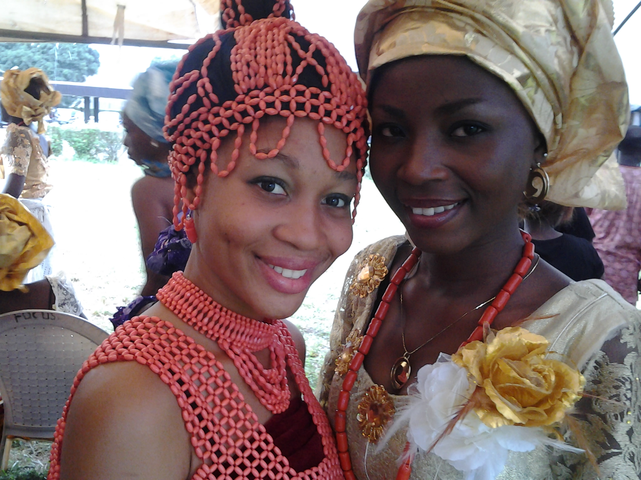 Bini and Isoko tribe This is an image of Cultural Fashion or Adornment from Nigeria